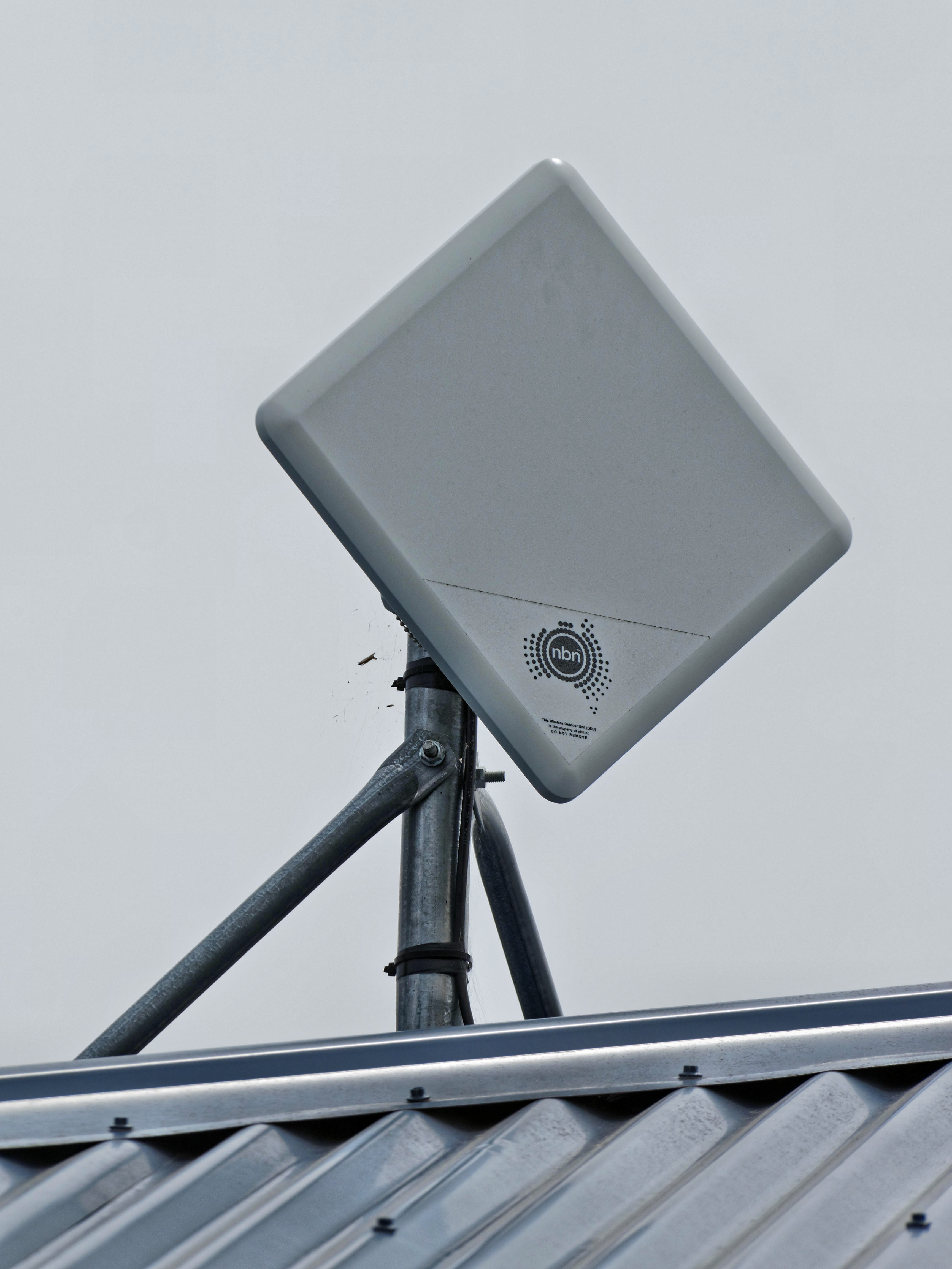 External antenna (ODU) for the Australian National Broadband Network